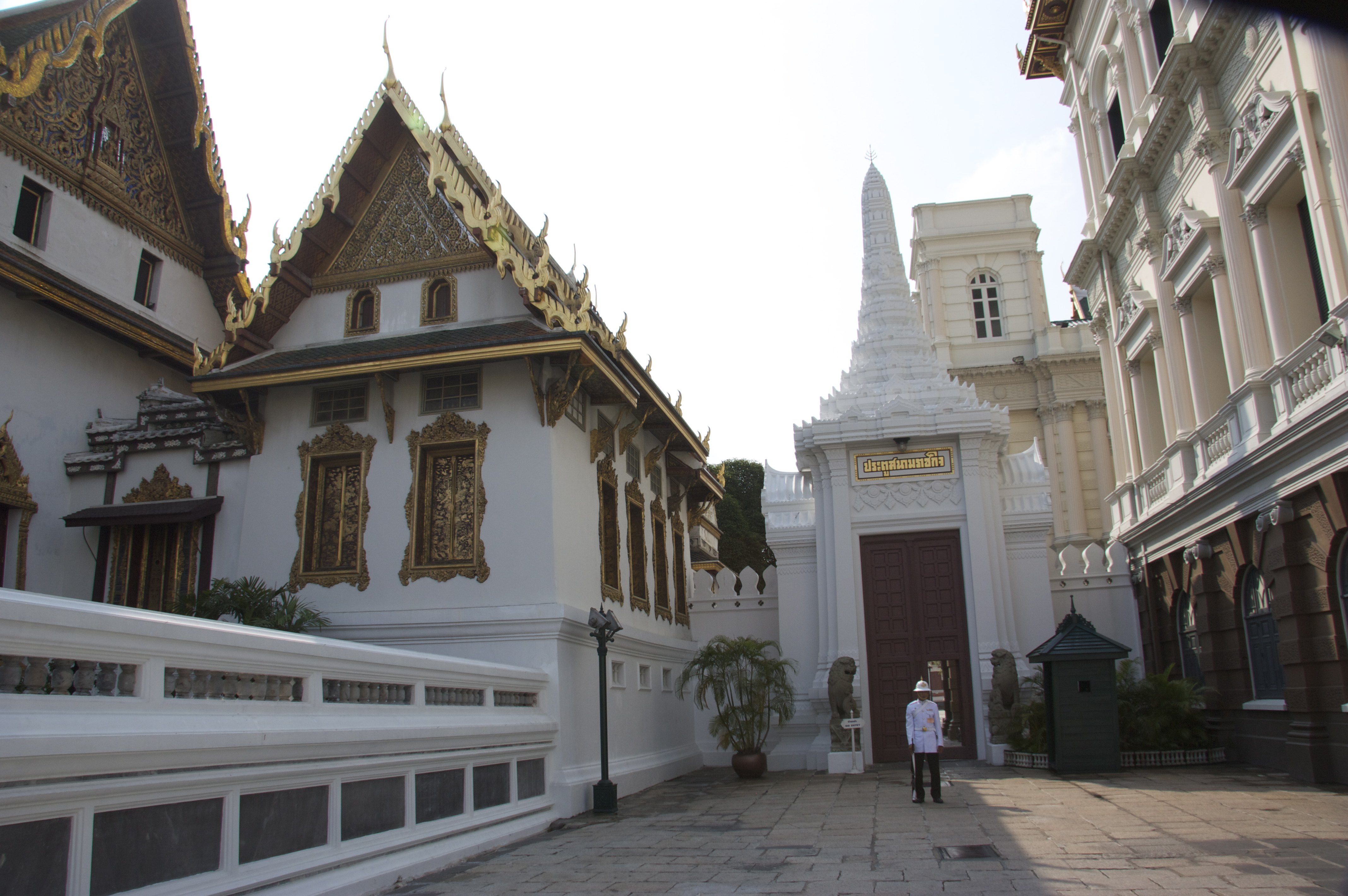 Ho Phra That Montien and Gate, Maha Montien Group, Grand Palace, Bangkok.